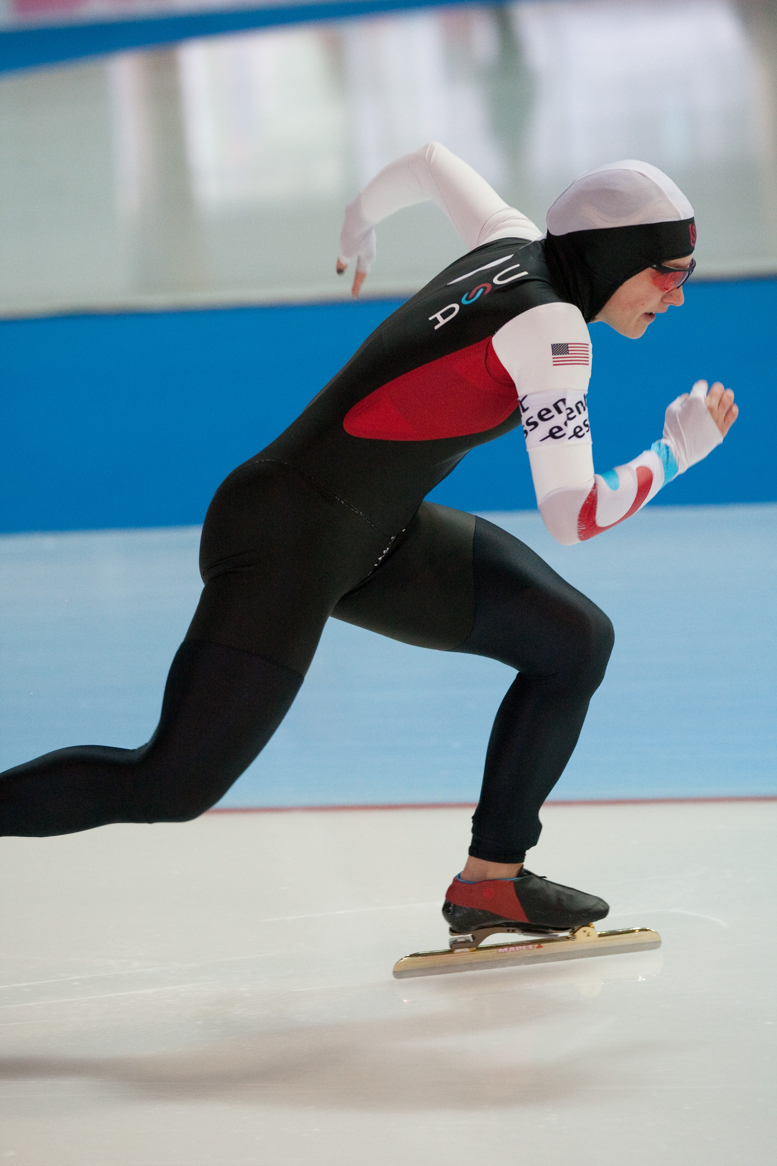 Sugar Todd skates the 500 meters at a World Cup event on March 1, 2013